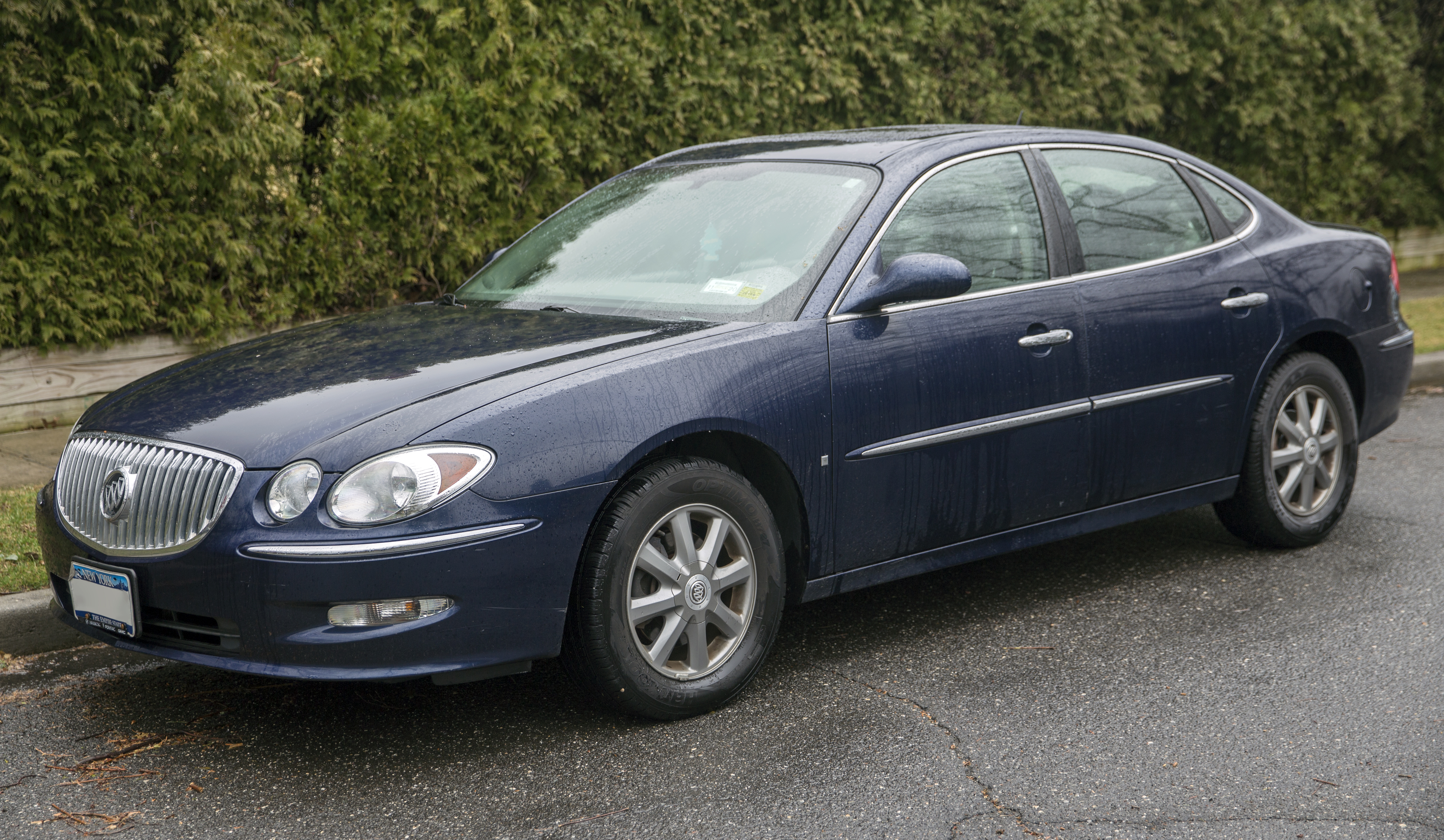 A 2009 Buick LaCrosse CXL with the usual 3.8-liter V6 (L26). Built in Oshawa 2, Ontario, Canadia.